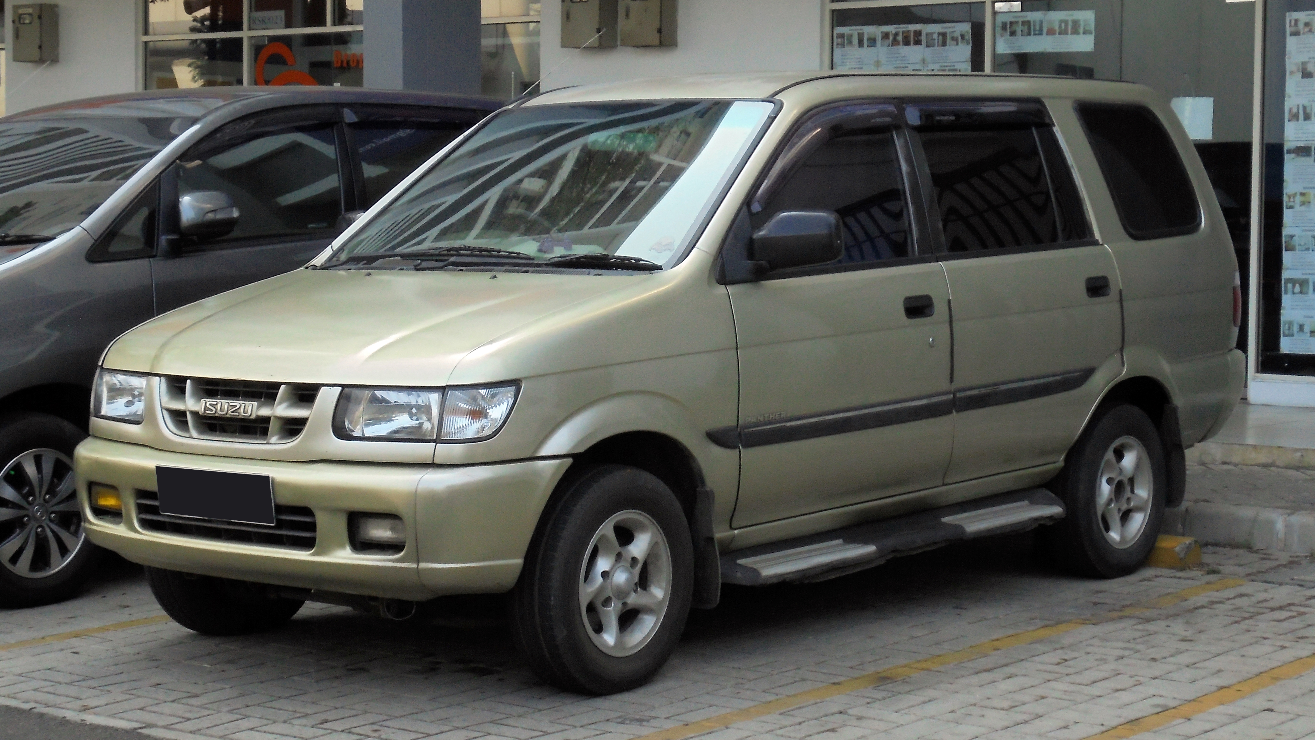 2001 Isuzu Panther LS 2.5 (TBR541)